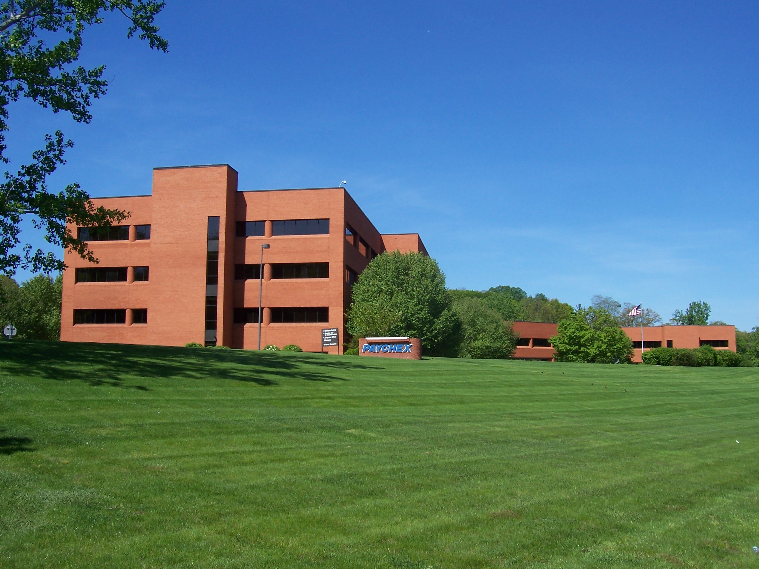 Paychex headquarters in Penfield, New York